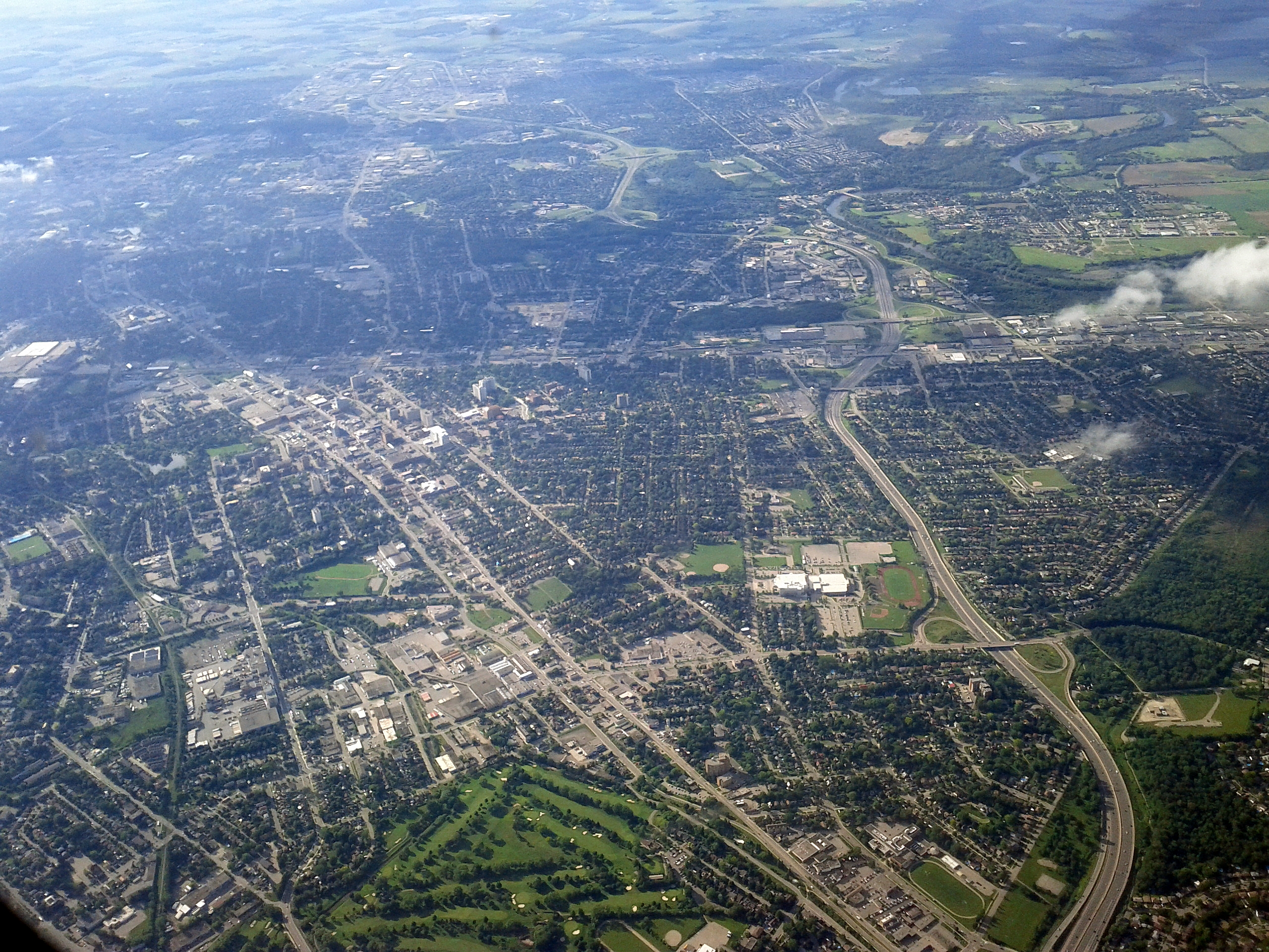 The Conestoga Parkway meanders through Kitchener-Waterloo